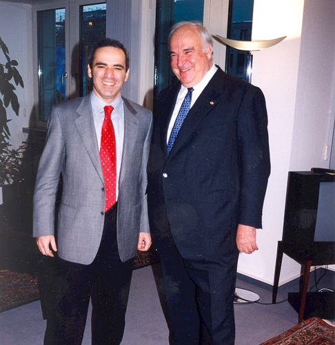 Garry Kasparov and Helmut Kohl.